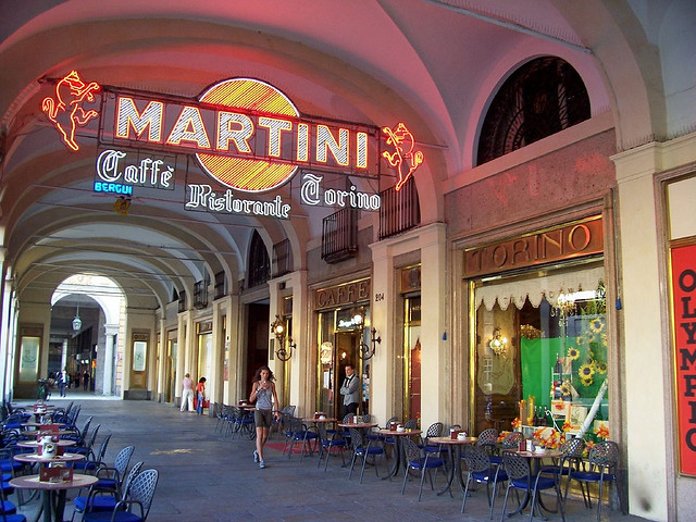 Head quarter Martini, Piazza San Carlo, Turin